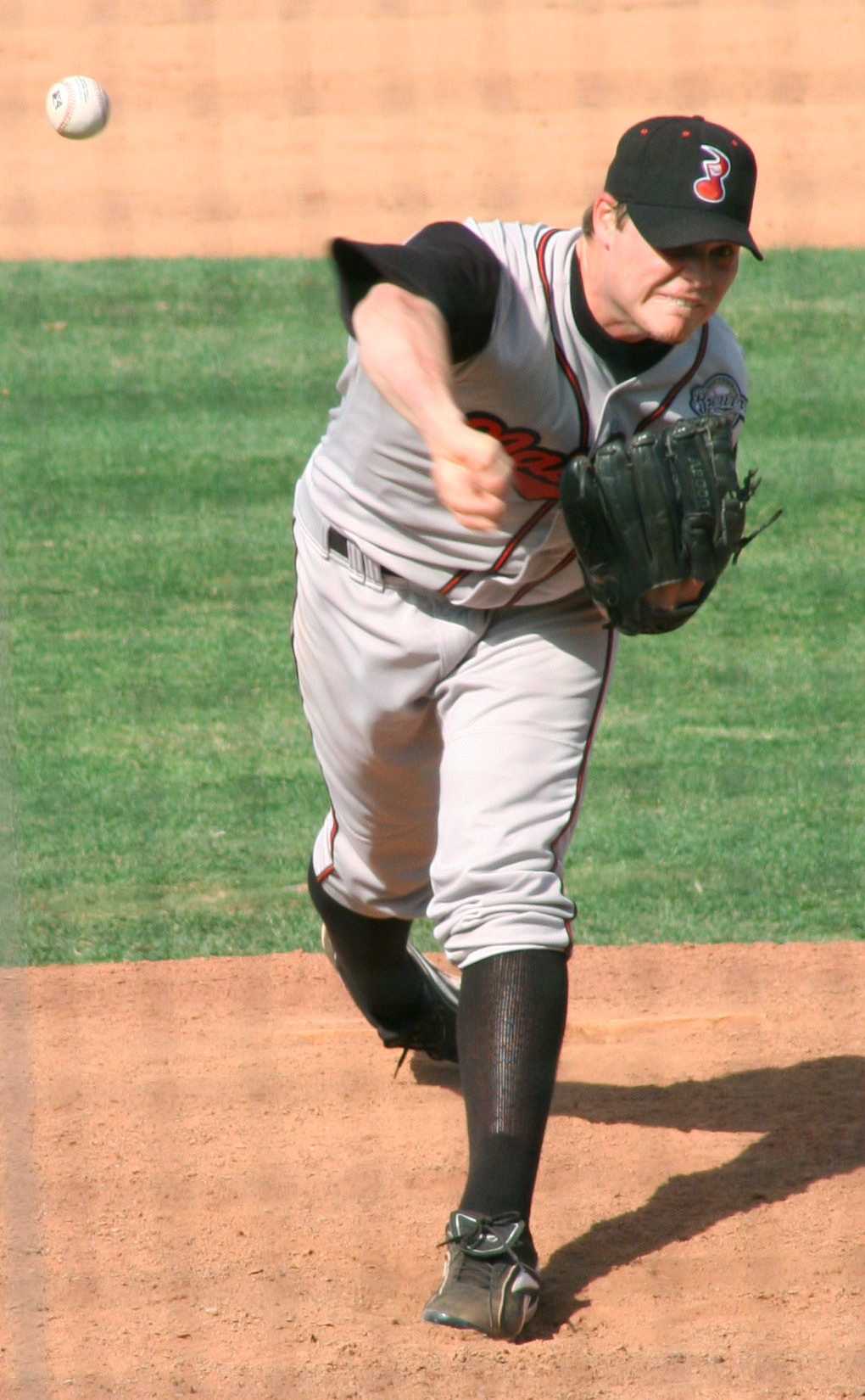 Tim Dillard, a pitcher for the minor league Nashville Sounds, having just pitched the ball during a game at Cashman Field on May 11, 2008